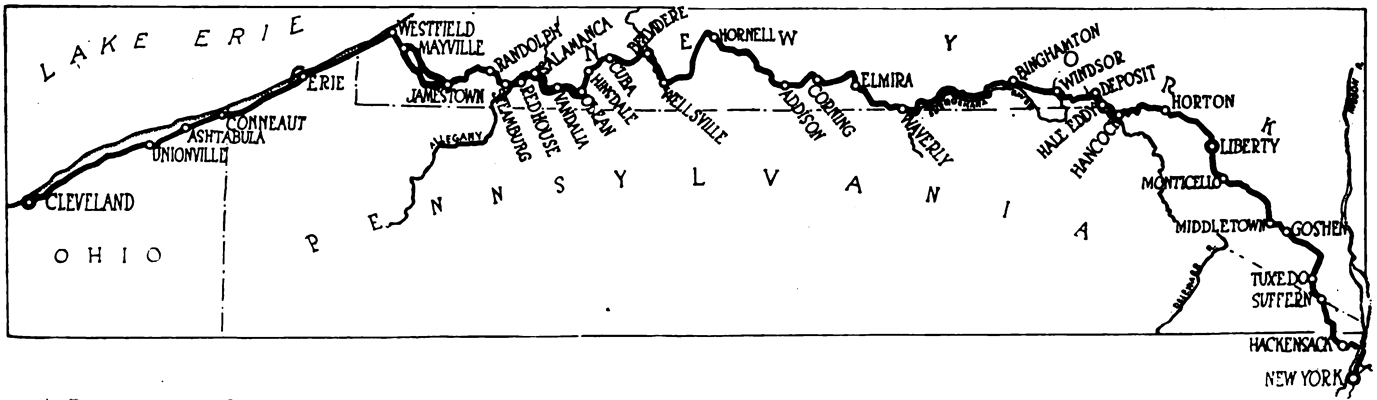 A map published in Motor Age, defining the original route of the Liberty Highway auto trail.